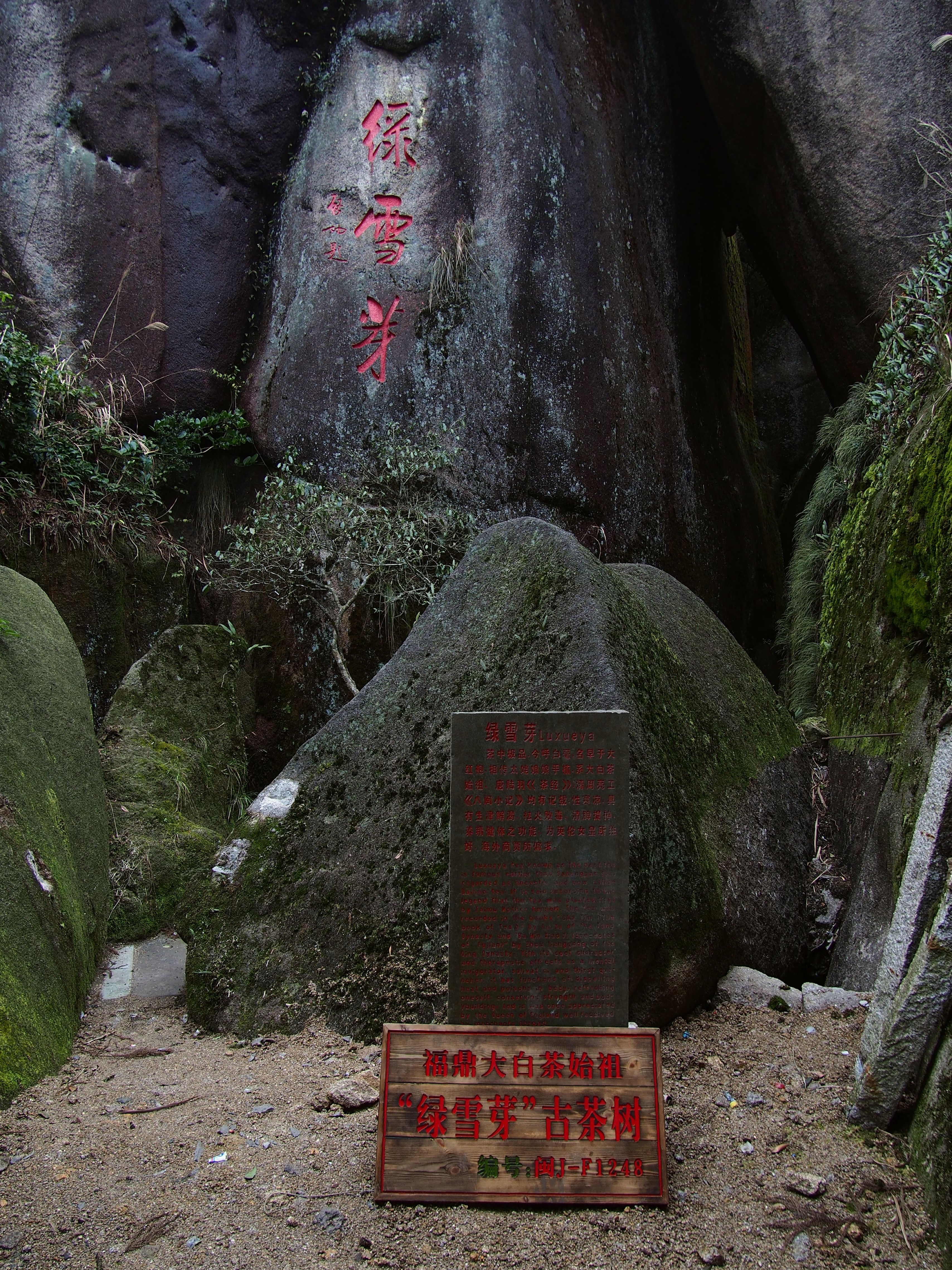 大白茶始祖绿雪芽 - Lvxueya Tea Tree - 2016.01